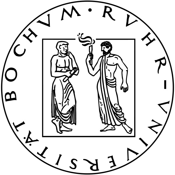 Crest of Ruhr University Bochum